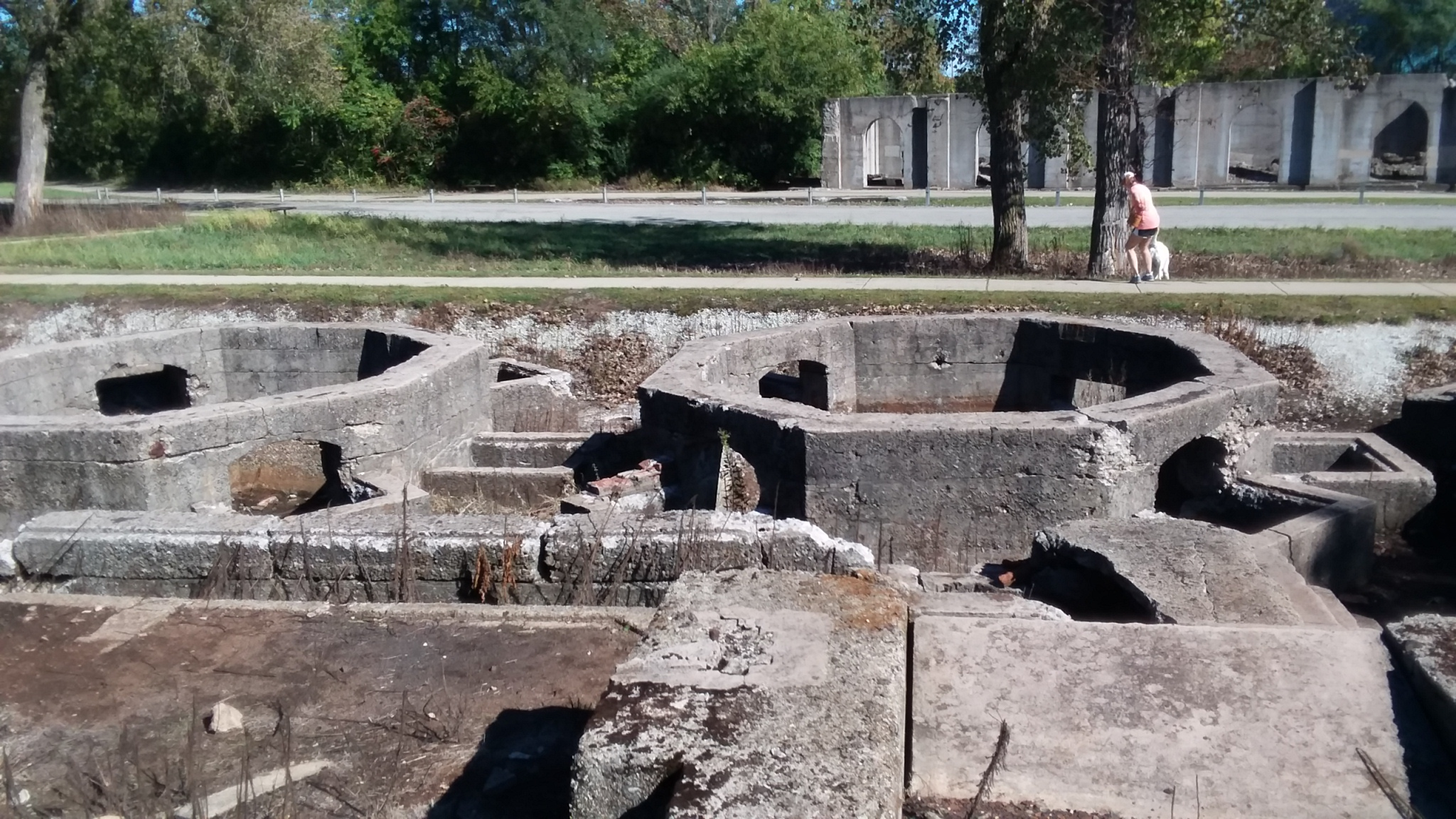 Ruins of Joliet Iron & Steel Works gas washers. The ruins are located in Joliet, Illinois, and are now part of the Joliet Iron Works Historic Site, of the Forest Preserve District of Will County.